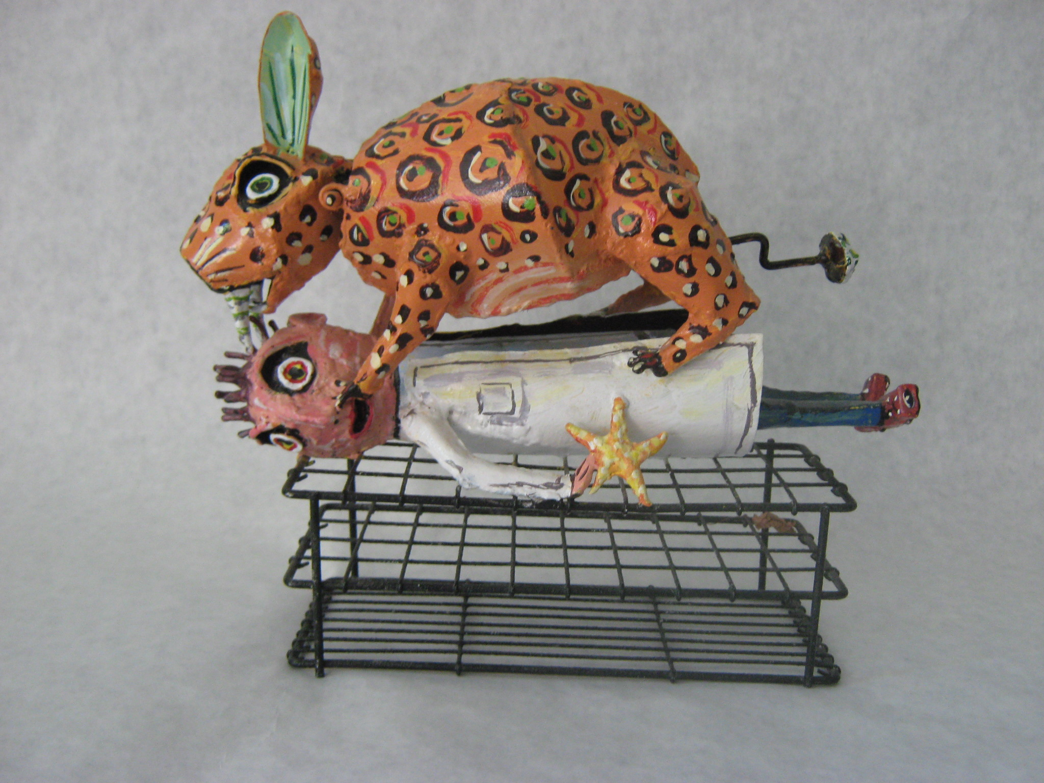 Bill Reid's metal sculpture of a bunny eating an astronomer, inspired by the Tipu's Tiger automaton in the V&A Museum.